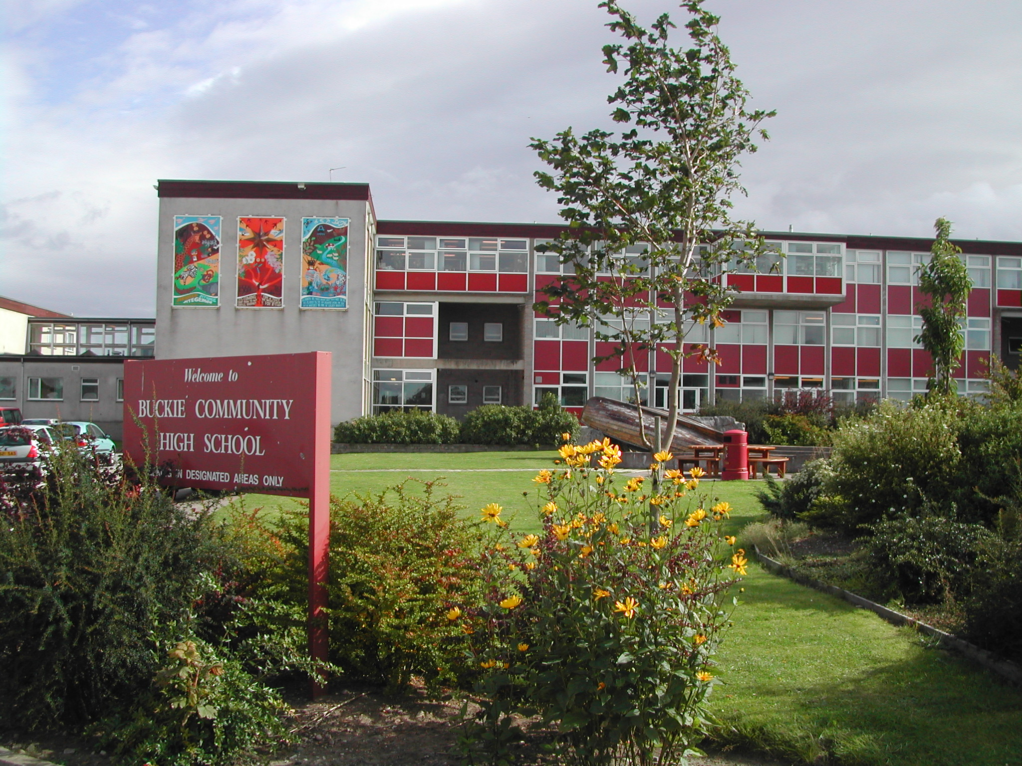 Buckie High School from Queen Street